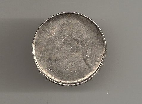 A struck coin remains on a die leaving its fading impression (called brockage) on subsequently struck coins and over time changing its own shape to resemble a bottle cap